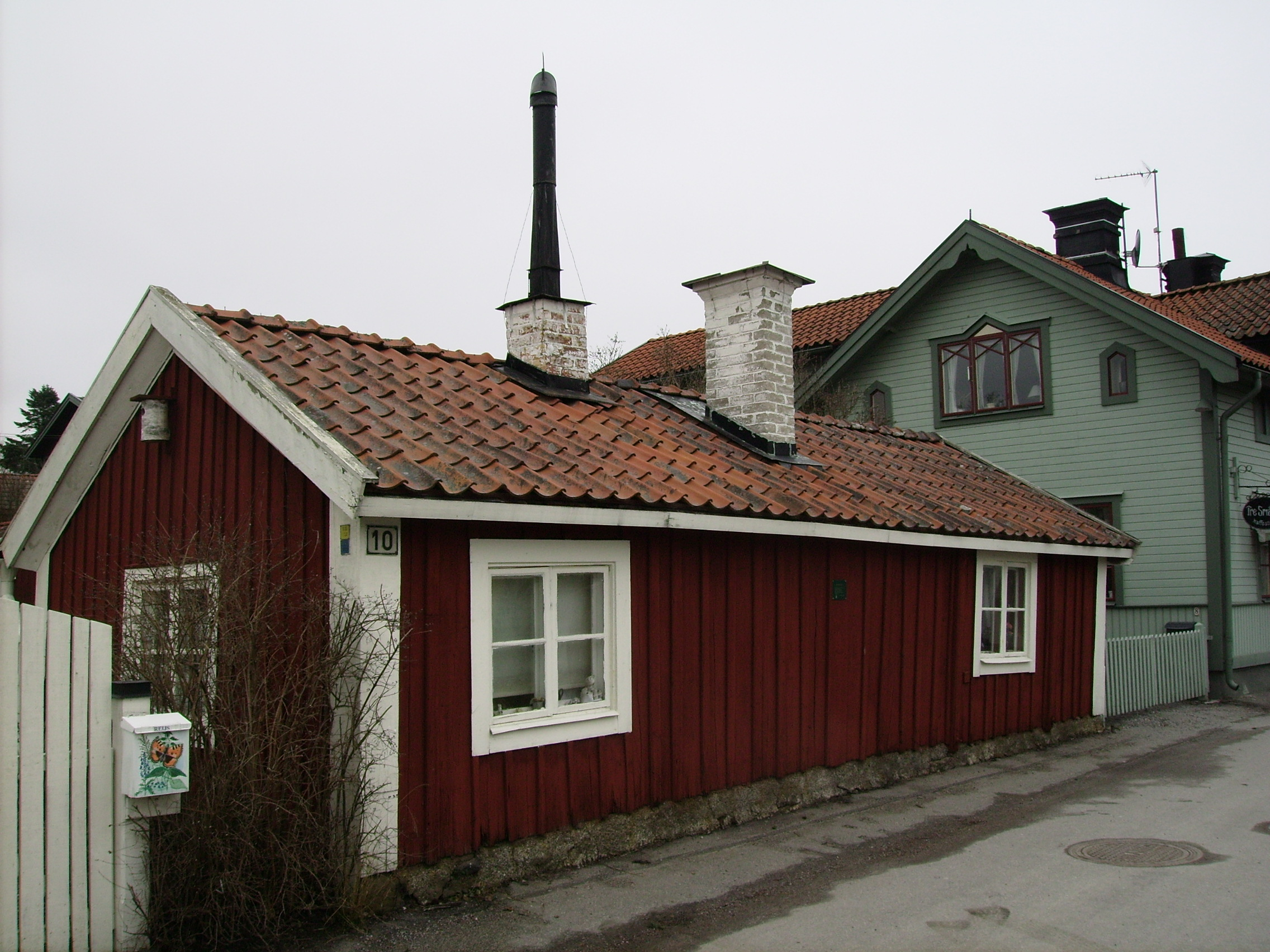 Åbladsstugan in Trosa. From 1700s.